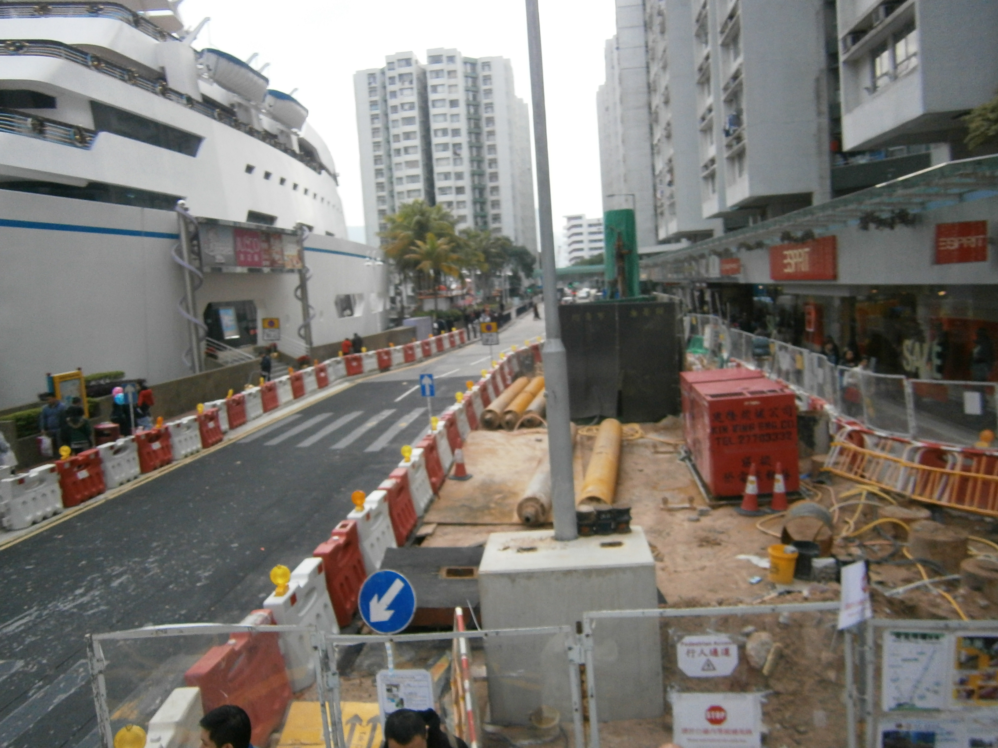 Whampoa Station under construction